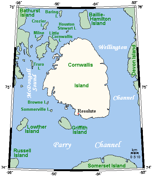 A closeup of Cornwallis Island, Nunavut, and neighbouring islands.